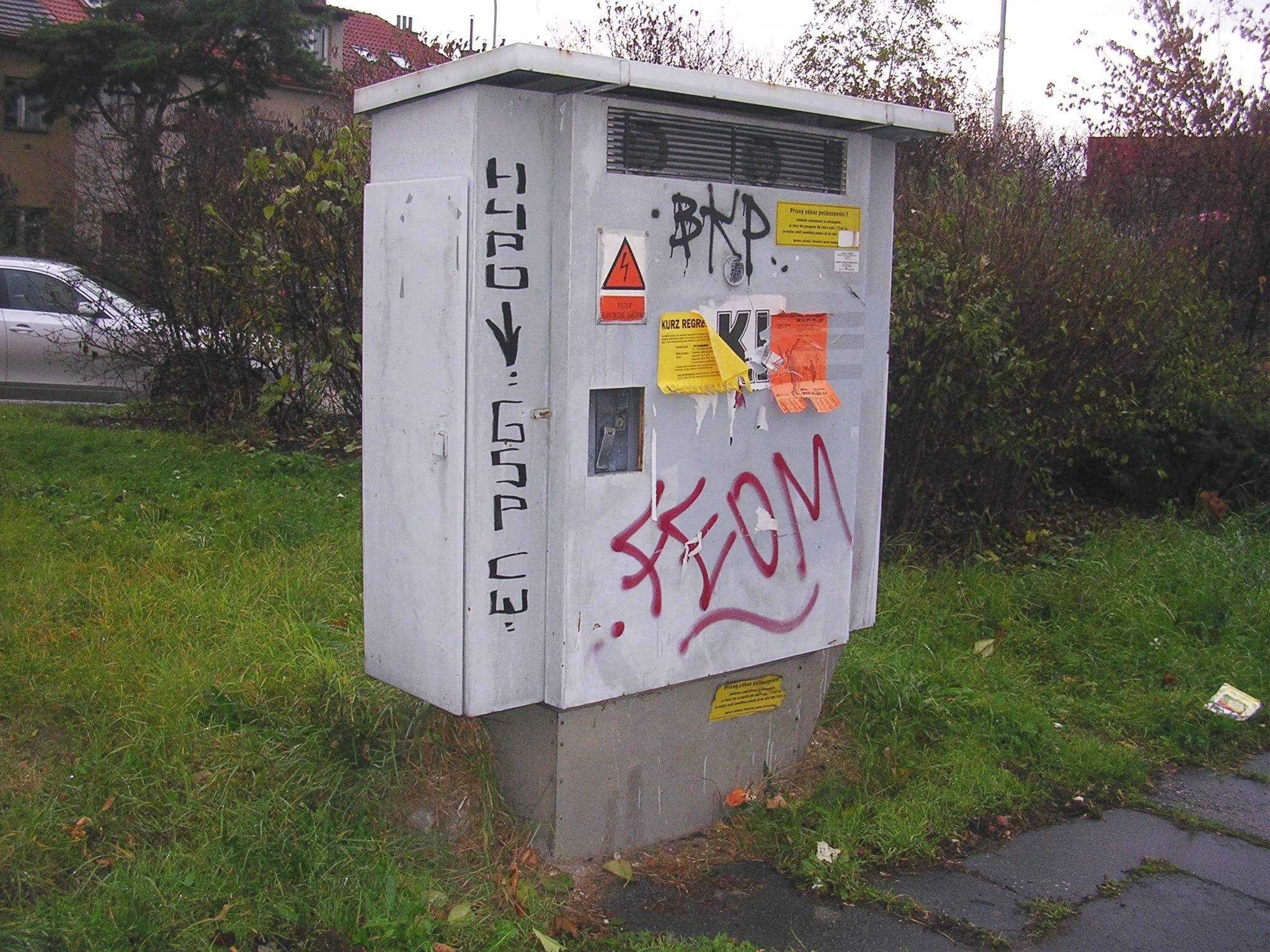 Traffic lights, Prague. Sequencer of traffic signals.